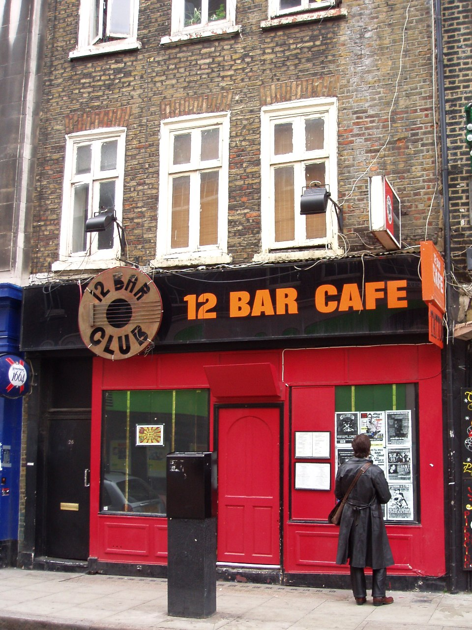 A bar/cafe and club putting on live music in an intimate venue on Denmark St. It's nice in there, but they have an odd arrangement due to it being so very small, that the balcony above the stage starts about halfway up the performer's head if they're standing on stage, and not more than a metre away from them. (Painted signage for the bar.) Address: 12 Denmark Street. Owner: (website). Links: Randomness Guide to London Beer in the Evening Qype